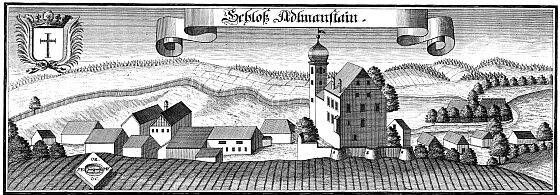 copperplate engraving of Michael Wening (1645–1718) of Schloss Adlmannstein